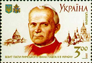 Stamp of Ukraine